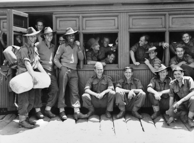 Innisfail, North Queensland, Australia. Troops of the 2/7th Infantry Battalion in the carriages and on the station platform waiting for the south-bound leave train to start. Shown: NX111740 Private (Pte) R. Chapman (1); Corporal (Cpl) Howsan (2); VX36219 Sergeant (Sgt) A. S. Haynes (3); VX13068 Sgt Congress (4); VX12843 Sgt Reg Saunders (5); VX43127 Pte L. Brodie (6); VX12370 Cpl. J. W. Jones (7); VX59057 Pte A. M. L. McLuckie (8); VX13672 Pte R. Parsons (9): VX55851 Pte Farnell (10); VX556791 Pte C. J. Spence (11); VX44293 Pte R. Wilton (12); VX33134 Pte A. G. Dorecott (13); NX58704 Pte N. Watson (14); Pte Toynton (15); VX16560 Pte W. Kann (16).